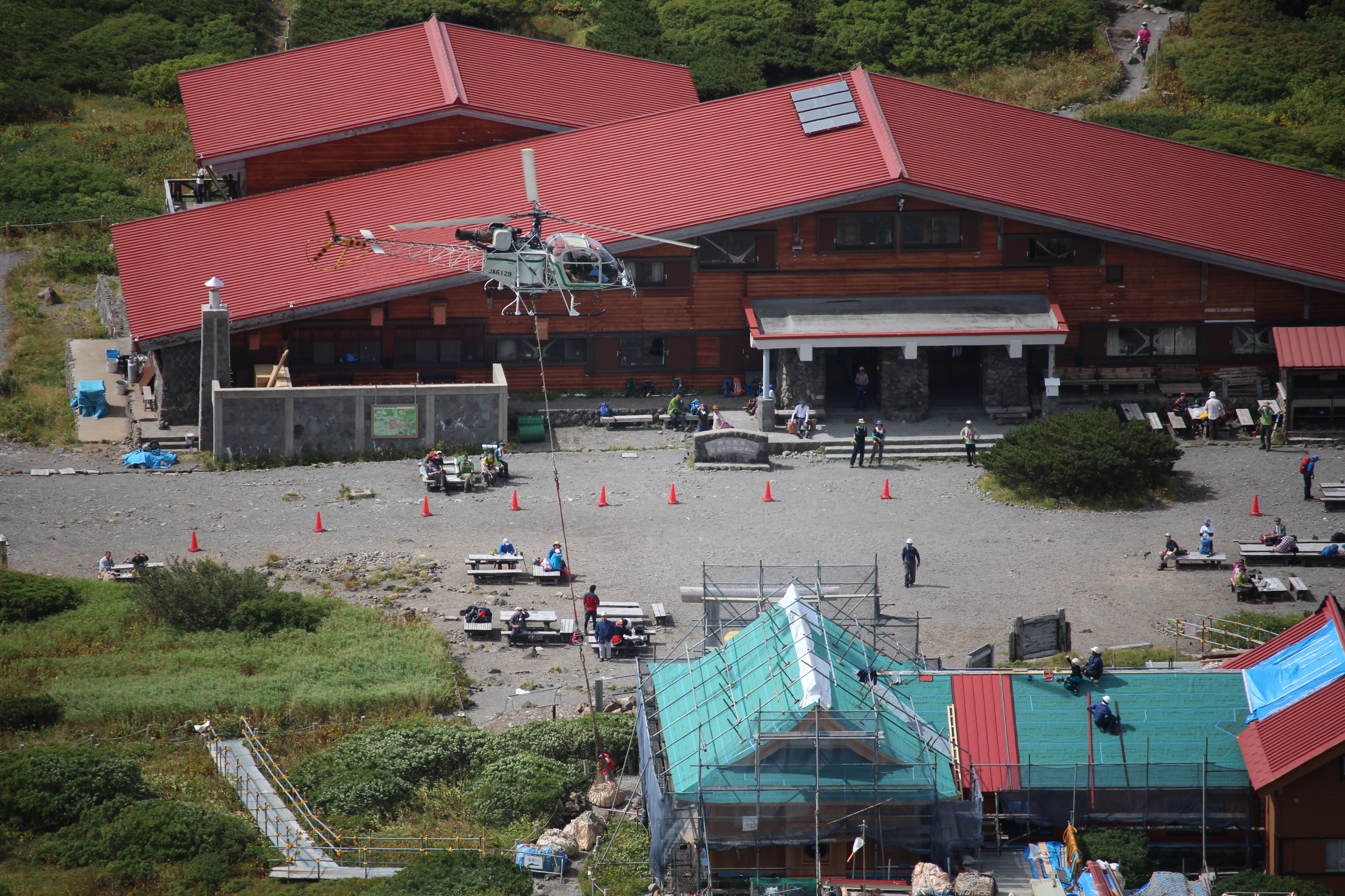 Aerospatiale SA-315B Lama over Murodo of Mount Haku, Hakusan, Ishikawa prefecture, Japan.